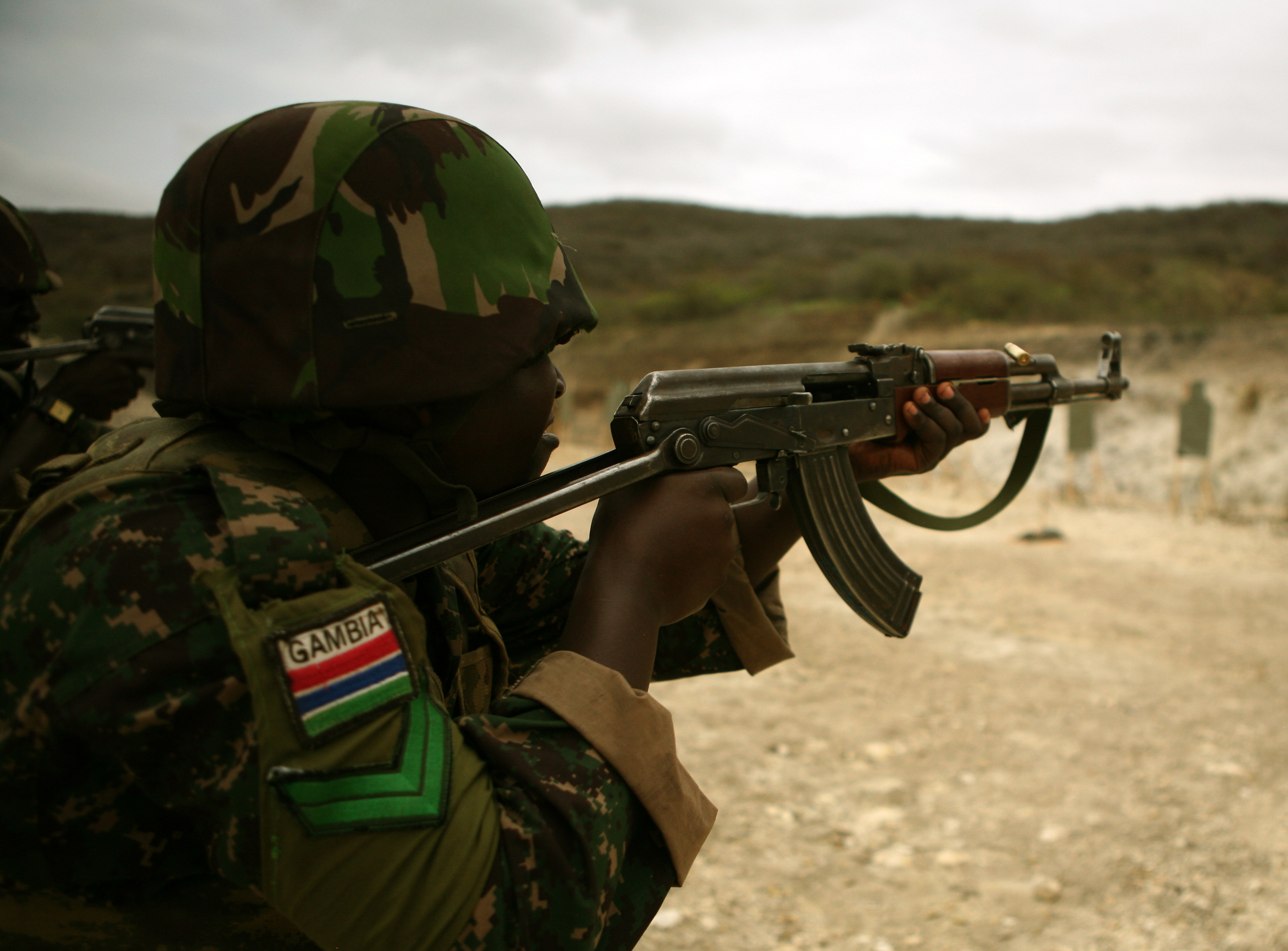 A Gambian soldier fires a hammered pair, or two shots in rapid succession, during combat marksmanship training July 15, 2012, in Thies, Senegal, as part of exercise Western Accord 2012. Western Accord is a U.S. Africa Command-sponsored, Marine Forces Africa-led multilateral field exercise and humanitarian mission in Senegal designed to increase interoperability between the United States and several West African partner nations.